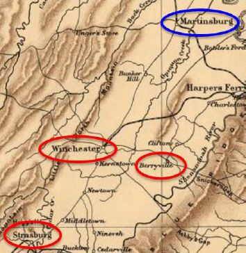 The map shows the area surrounding the site of the U.S. Civil War Battle of Rutherford's Farm (a.k.a. Carter's Farm) which occurred during July 1864 in the U.S. state of Virginia. The battle took place slightly north of Winchester. Communities relevant to this battle have been circled.